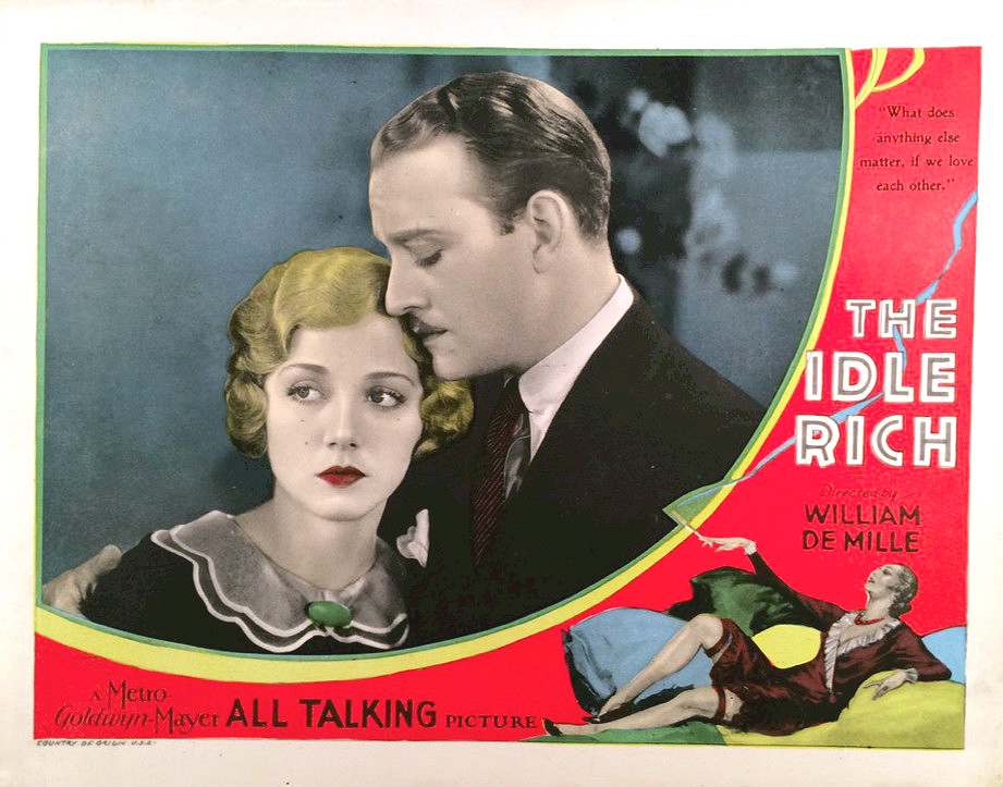 Lobby card for the American comedy film The Idle Rich (1929). There are no copyright marks on the card. At bottom left is Country of origin USA.